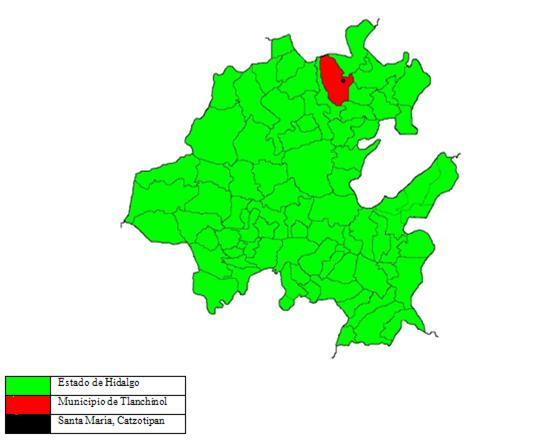 Localización de Santa María